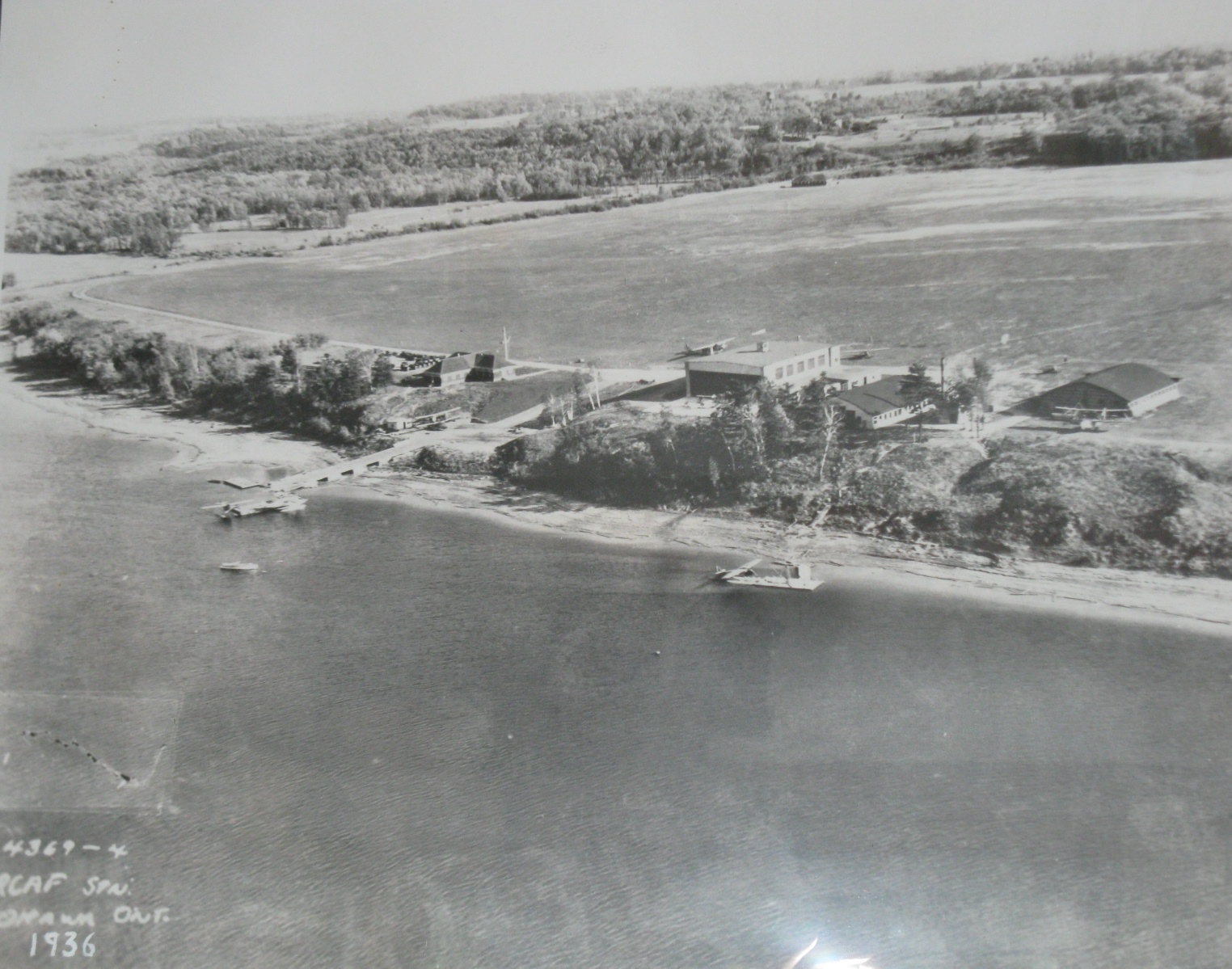 Royal Canadian Air Force Station Ottawa circa 1936. Ramp was used to launch sea planes from Ottawa river.